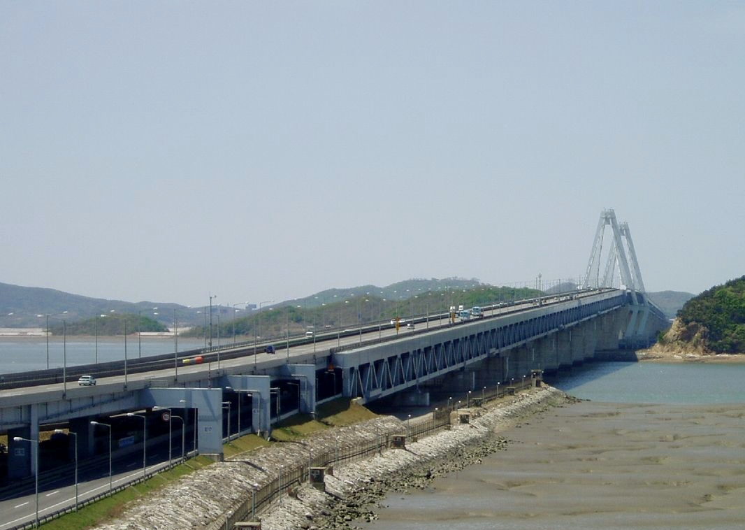 The Yeongjong Bridge in Incheon, South Korea